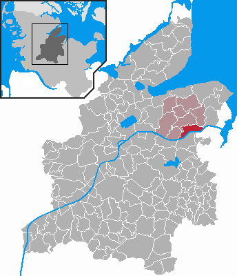 Locator maps of municipalities in Schleswig-Holstein - District Rendsburg-Eckernförde